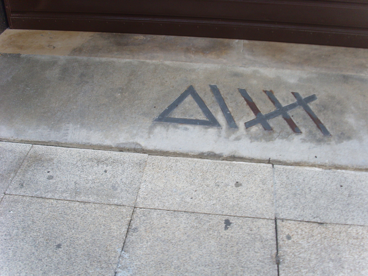 Siglas Poveiras, personal mark on a private garage in Candido Landolt Street, Downtown Povoa de Varzim